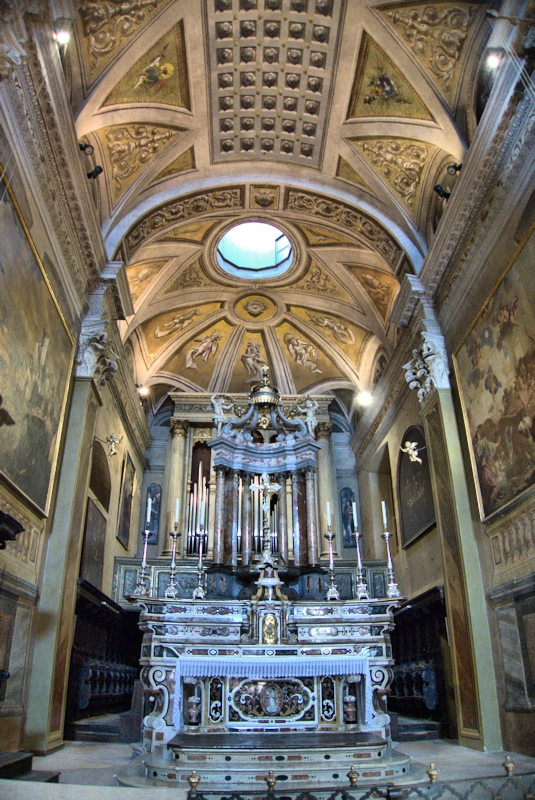 Presbitery